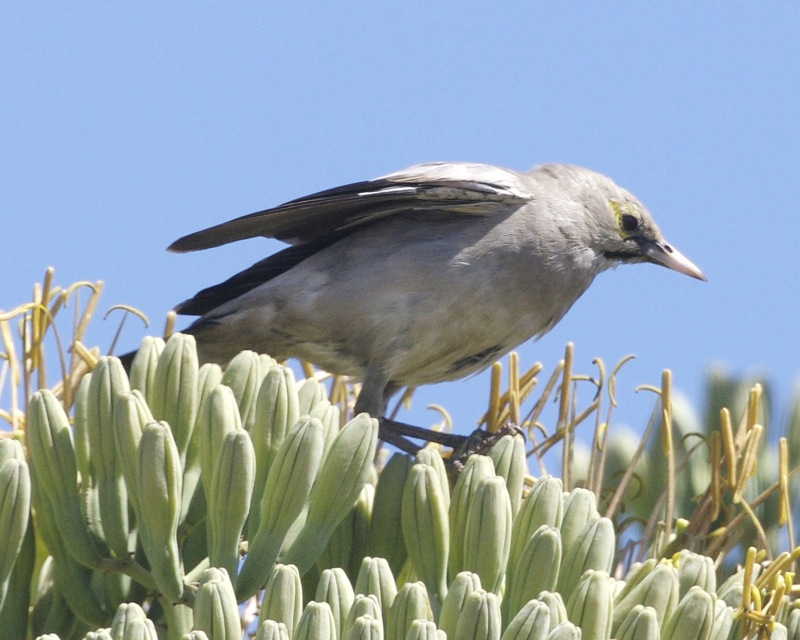 Wattled Starling - female Creatophora cinerea Masai Mara, Kenya 30th. August 2008 690V2324